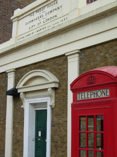 London Proof House The Worshipful Company of Gunmakers is an ancient livery company banished from the City of London due to the hazardous nature of their trade. This is one of two proof houses in Great Britain - the other is in Birmingham - to which all small arms have to be submitted for testing, to ensure that they are safe to use, prior to sale.